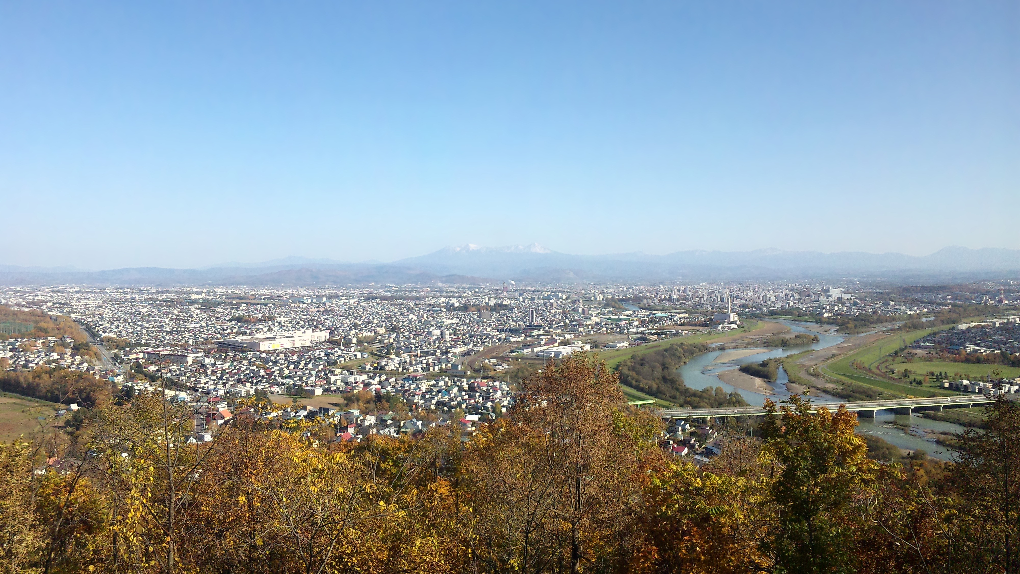 Cityscape of Asahikawa from Mt. Arashiyama observatory, Hokkaido, Japan